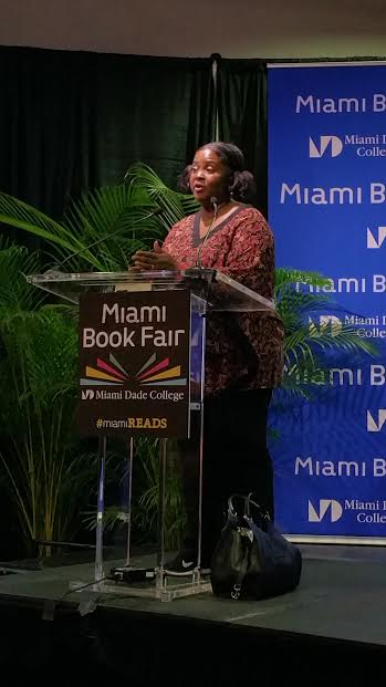 Sister Souljah speaking at Miami Book Fair, November 21, 2015.